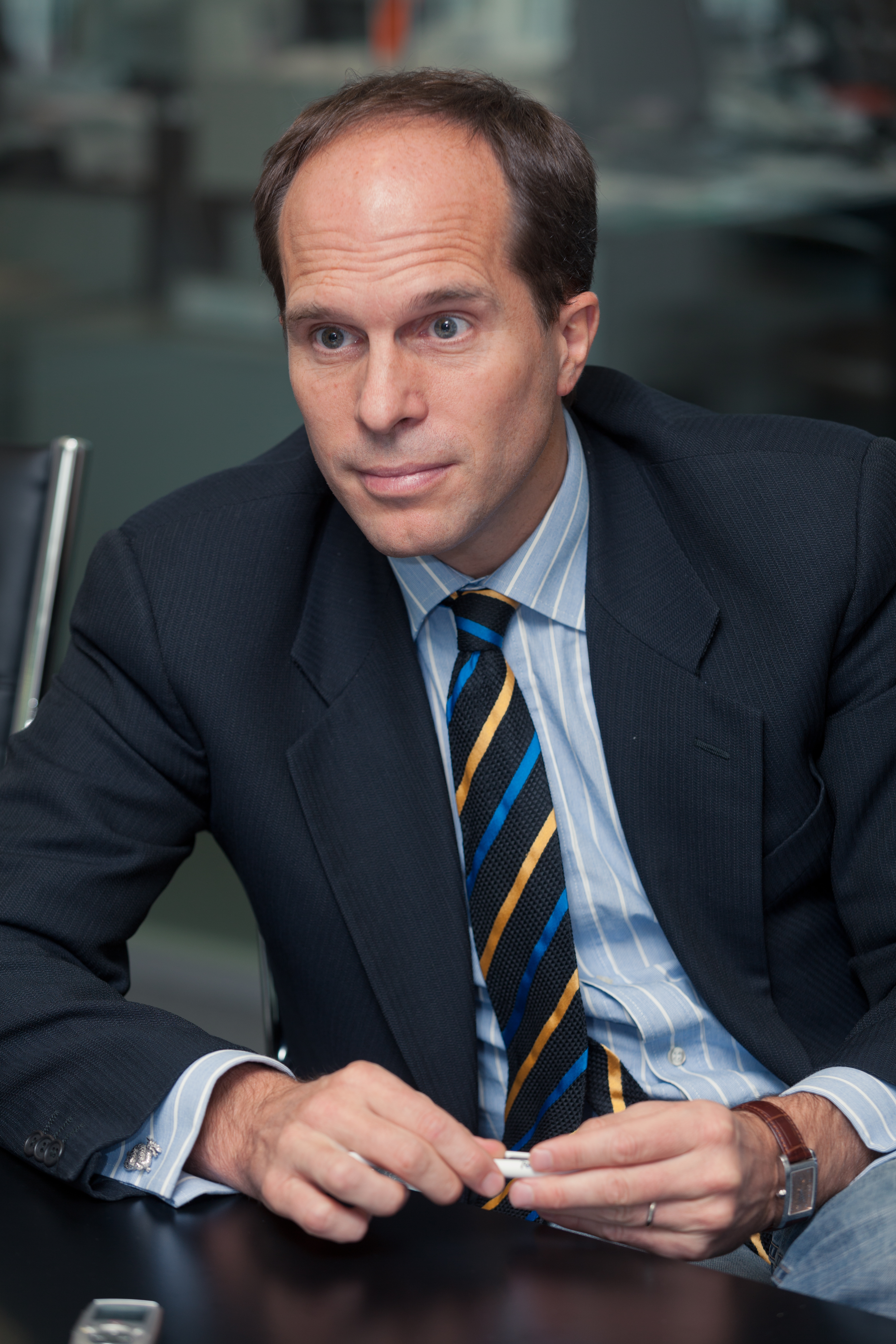 Jochen Wermuth in Wermuth Asset Management Moscow office during the interview